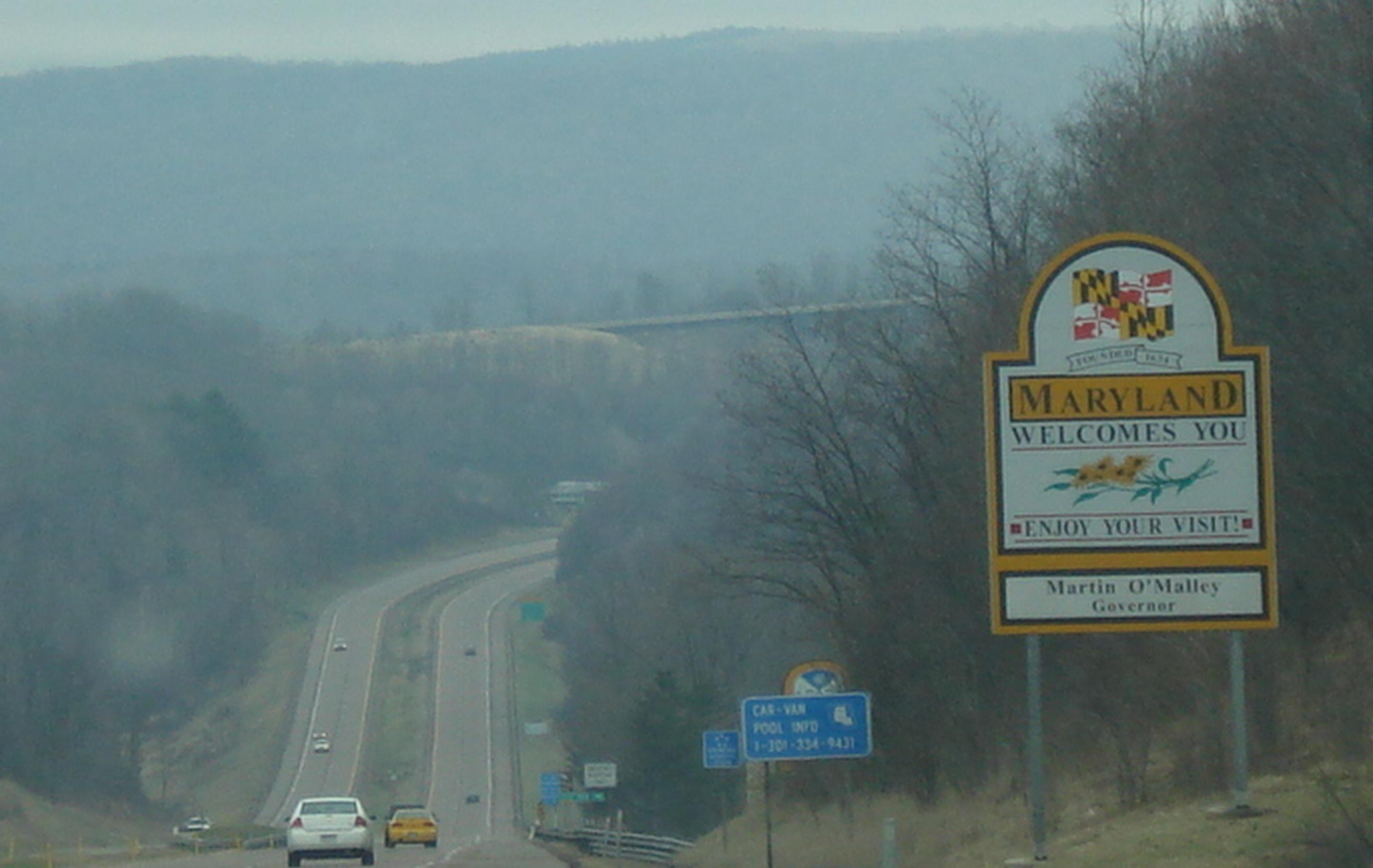 Entering Maryland from West Virginia on I-68 East towards Cumberland.